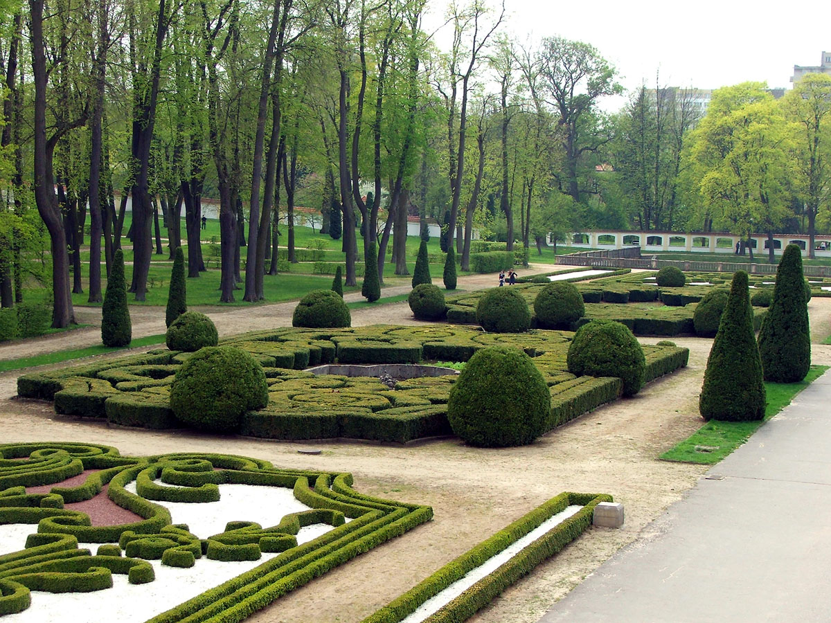 Parterre garden of the Branicki Palace in Białystok.